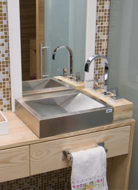 Toilet Stainless Steel Vessel Sink standing on a Wood Surface. Brazilian creative design. Made by Palmetal